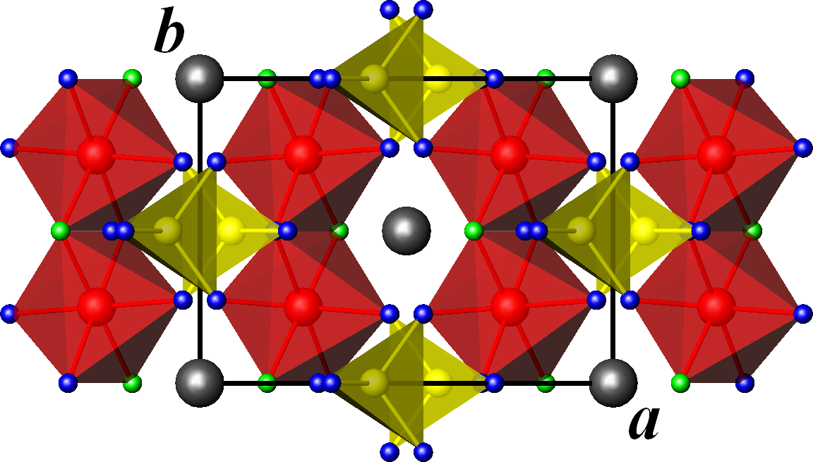 Crystal structure of mounanaite, PbFe+32(VO4)2(F,OH)2, C2/m, projected onto the (a,b) plane. Gray: lead atoms, red: iron atoms, yellow: vanadium atoms, blue: oxygen atoms, green: fluorine atoms. The hydrogen atoms are not represented. Data source: Werner Krause, Klaus Belendorff, Heinz-Jürgen Bernhardt, Catherine McCammon, Herta Effenberger and Werner Mikenda (1998) "Crystal chemistry of the tsumcorite-group minerals. New data on ferrilotharmeyerite, tsumcorite, thometzekite, mounanaite, helmutwinklerite, and a redefinition of gartrellite", European Journal of Mineralogy, 10(2): 179-206.